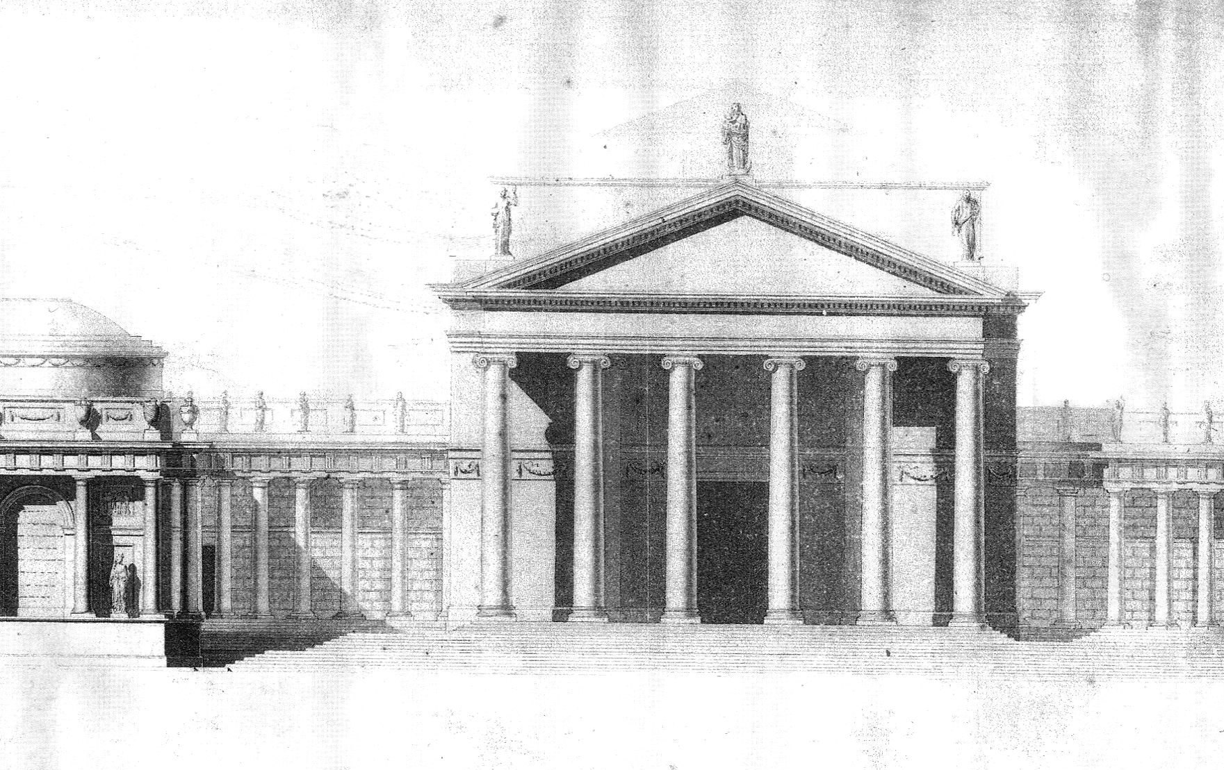 Part of the architect's drawing for buildings in the piazza. Scanned and enhanced by myself.